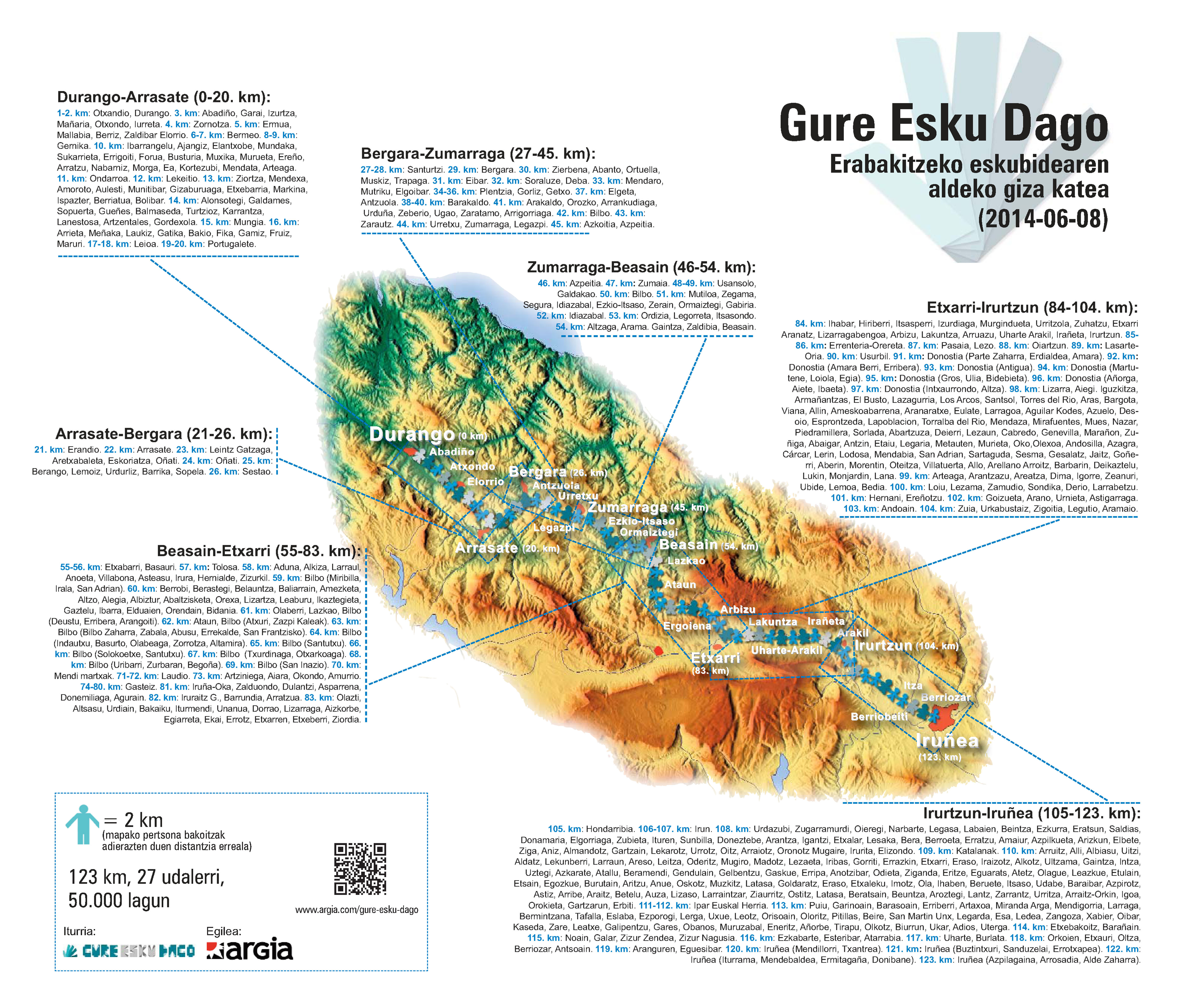 Basque Human Chain for The Right To Decide the Future of Basque Country. 8th July, 2014.